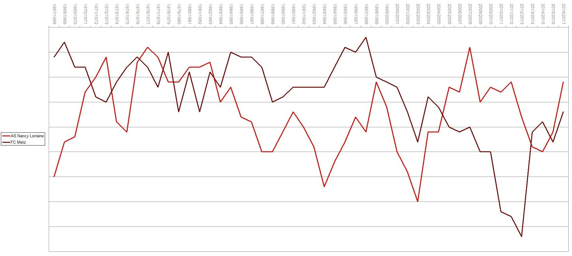 Evolution AS NANCY - FC METZ 1967 - 2017